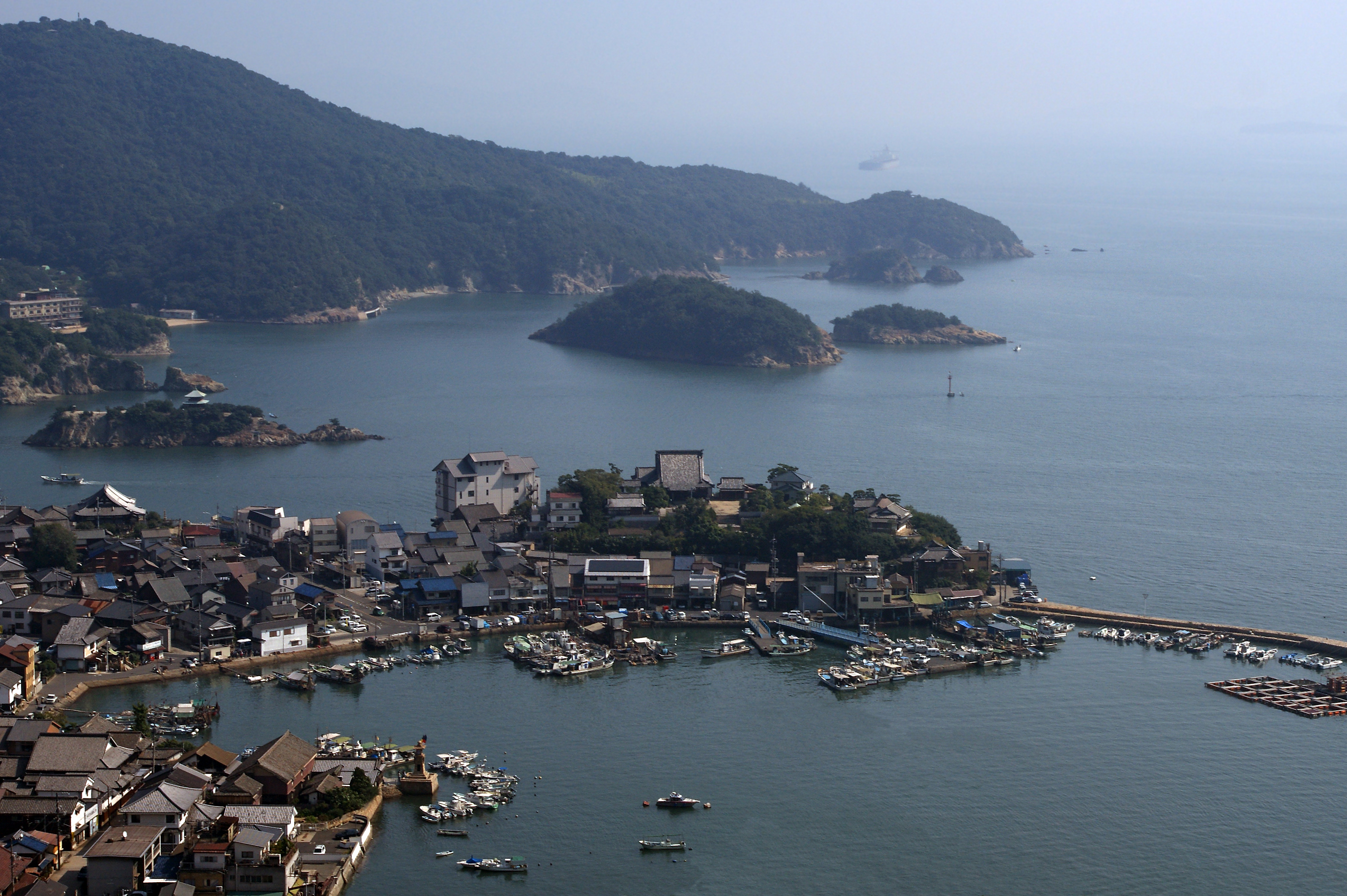 Tomonoura, Fukuyama, Hiroshima Prefecture, Japan